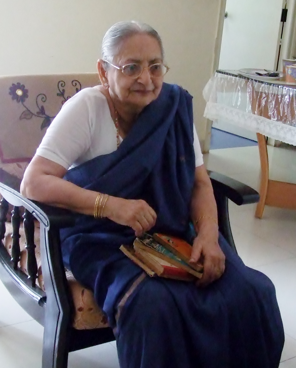 Telugu women writer